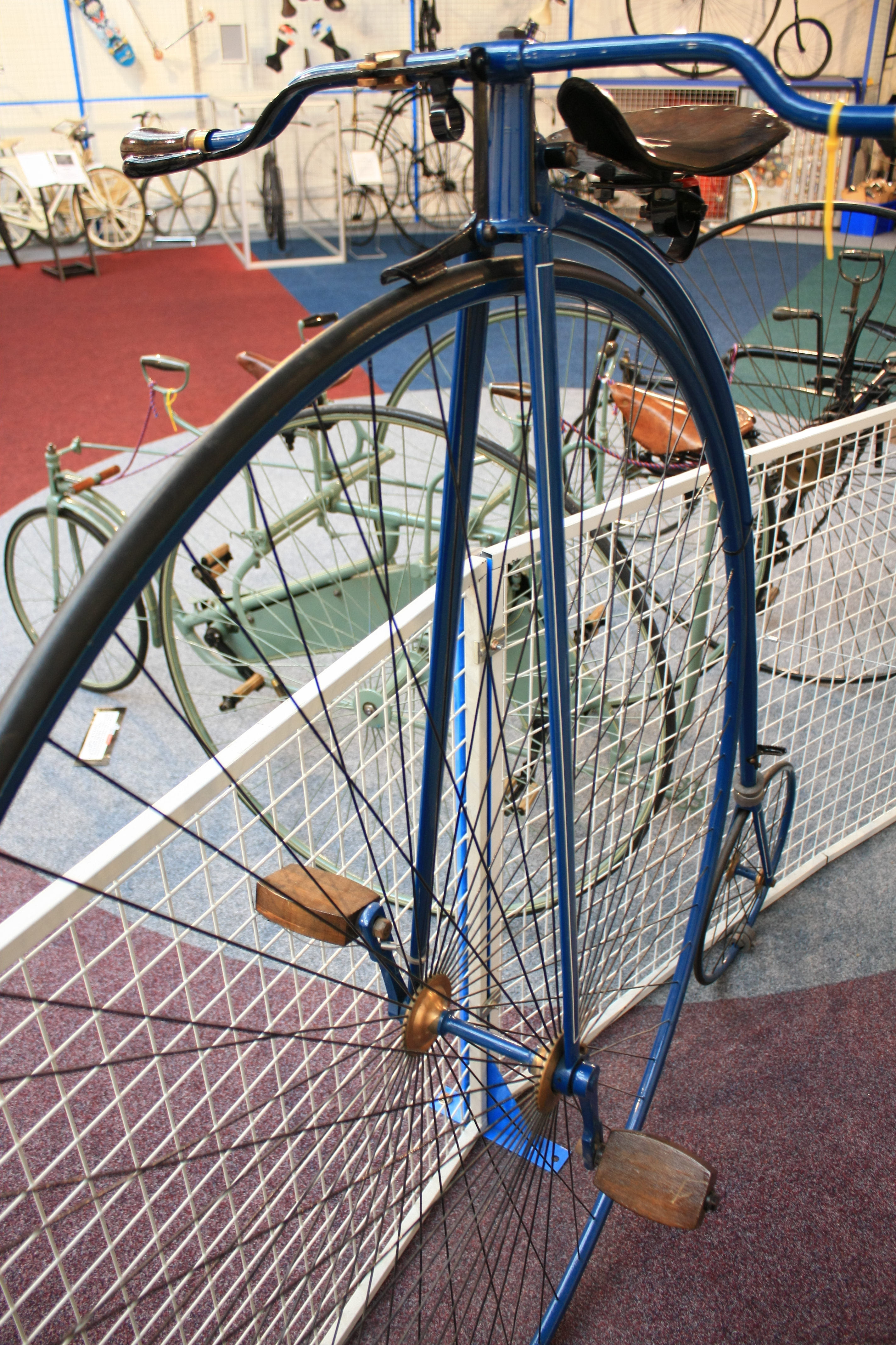 "This bicycle was made by Humber, Marriott and Cooper. It has a 54 inch (137cm) front wheel, a tubular steel frame and "spider" wheels with solid rubber tyres. Penny Farthing bicycles had very large front wheels so they would cover a long distance in one revolution. As the pedals were directly connected to the big wheel they also went round once." Coventry Transport Museum, UK. 2009